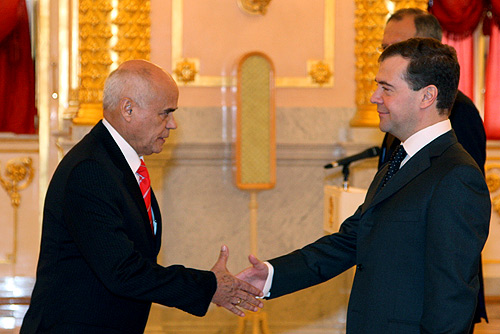 THE KREMLIN, MOSCOW. Presentation ceremony of foreign ambassadors’ letters of credentials. Ambassador of the Bolivarian Republic of Venezuela Hugo Jose Garcia Hernandez presents his letter of credentials to the President.